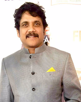 Nagarjuna at the 62nd Filmfare Awards South Ceremony held in Nehru Stadium, Chennai.